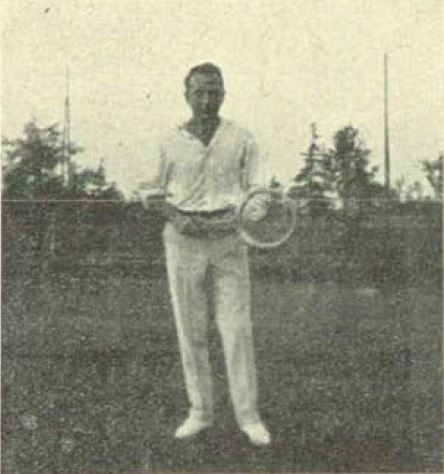 Ede Tóth in 1929 in the Budapest Old Boy tournament